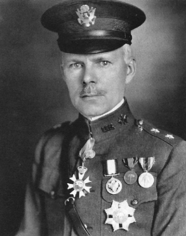 Major General George Owen Squier (1865-l934)